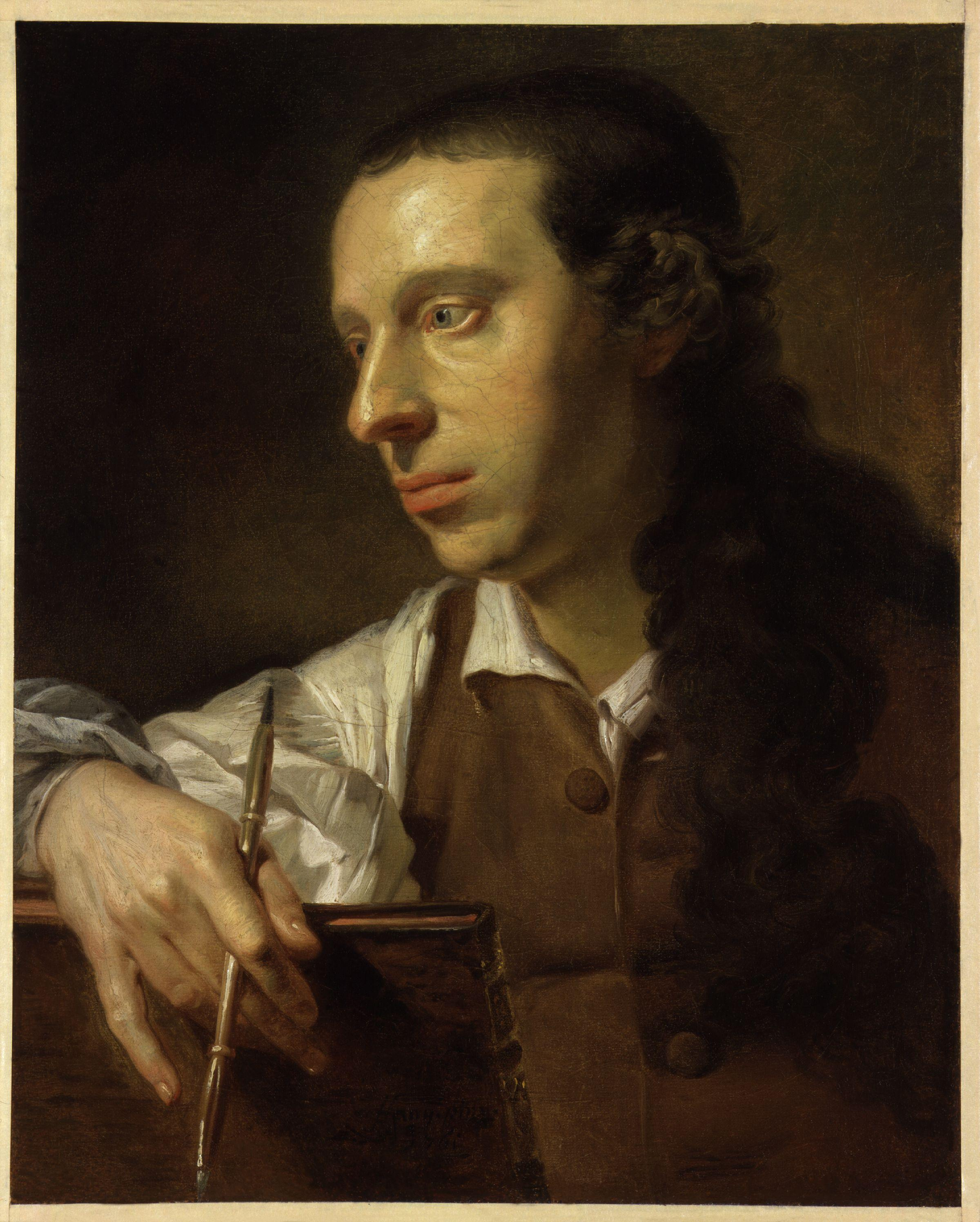 All images in this batch have been confirmed as author died before 1939 according to the official death date listed by the NPG.